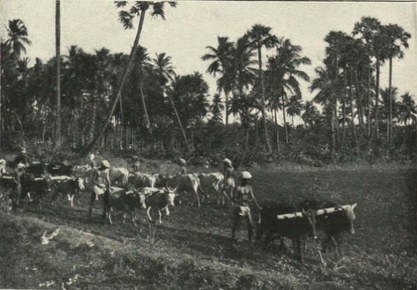 A typical scene of charming Adyar.